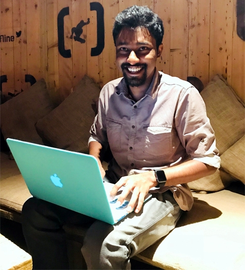 Indian Hacker Benild Joseph